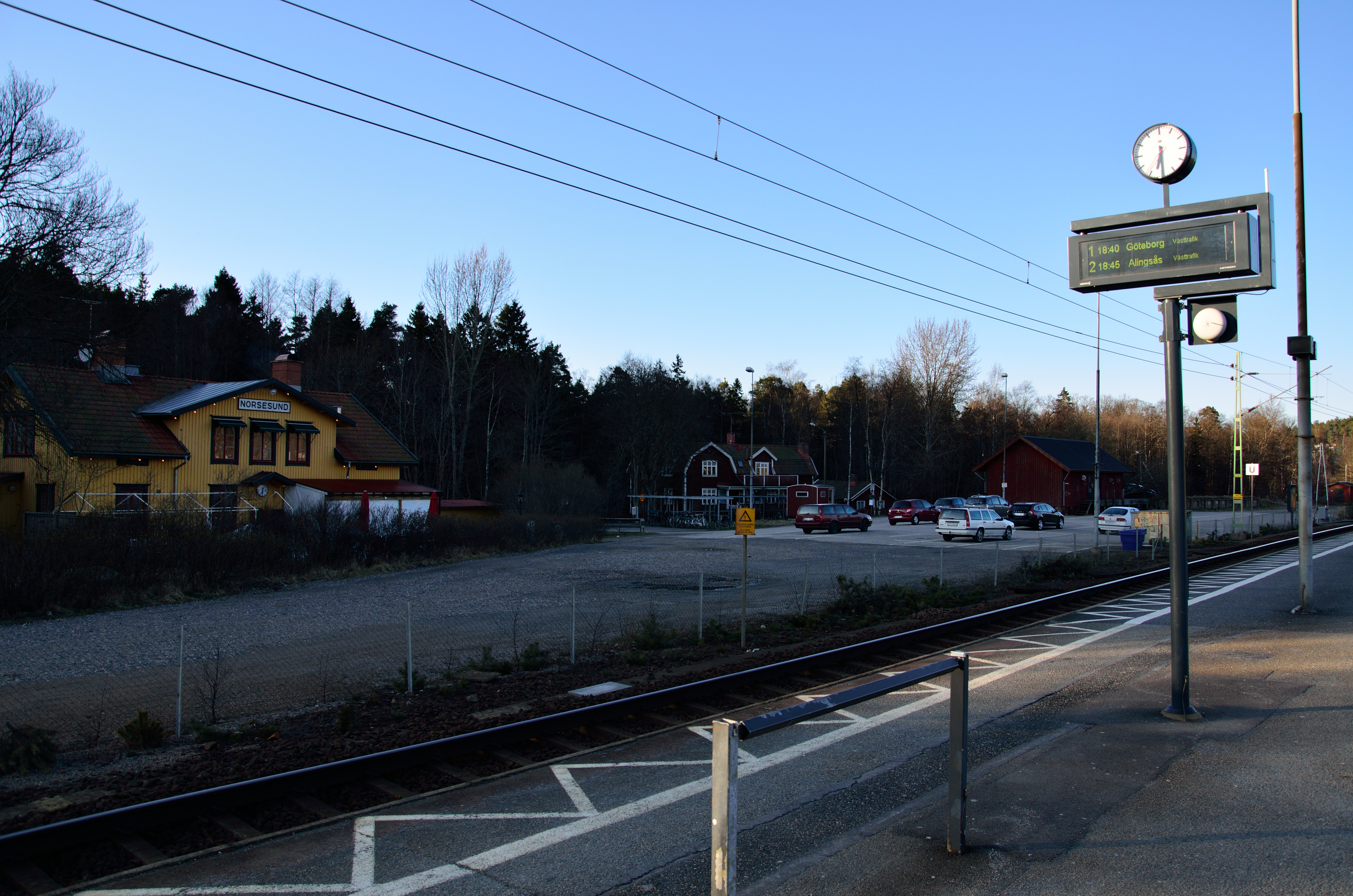 Norsesund's train station